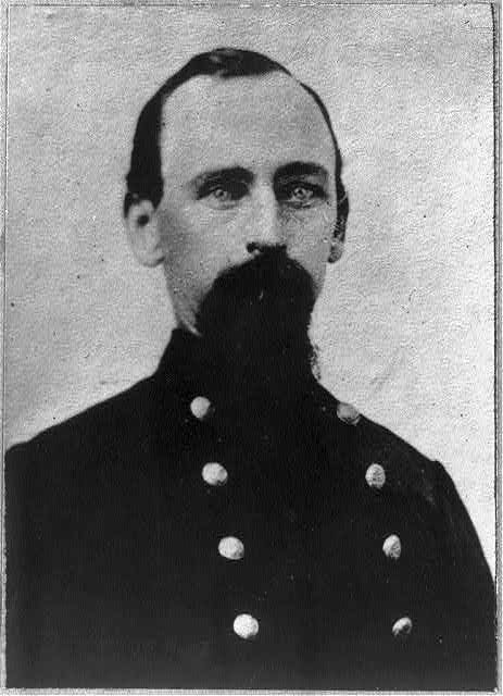 Arthur P. Bagby, Confederate General. (For some reason, referred to as Arthur F. Bagby. Likely an error.)